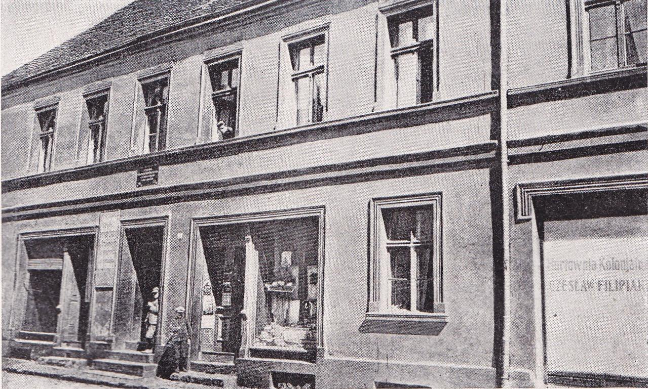 Historic school building in Września, Poland